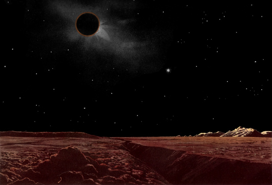 artist's rendering of lunar eclipse seen from the Moon